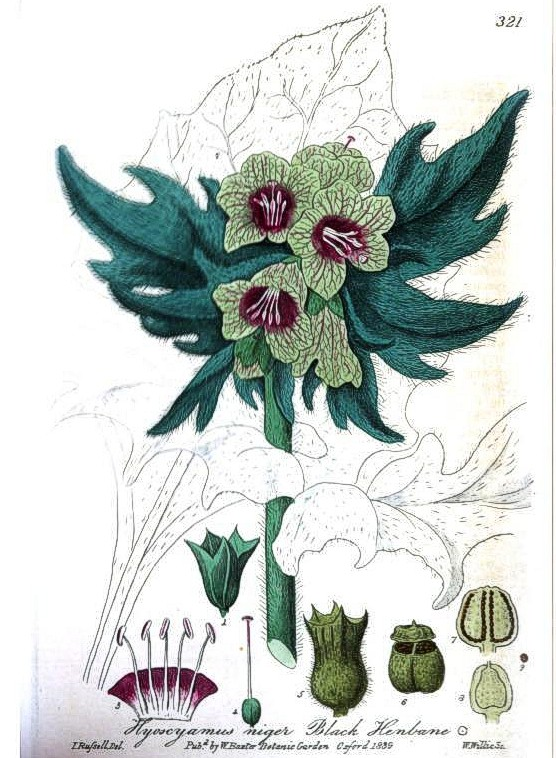 Hyoscyamus niger L., Plate 321 from "British Phaenogamous Botany"